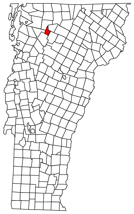 Description: Map of Vermont towns with Waterville highlighted Source: Map created by Jared C. Benedict on 26 March 2004. Copyright: © Jared C. Benedict.